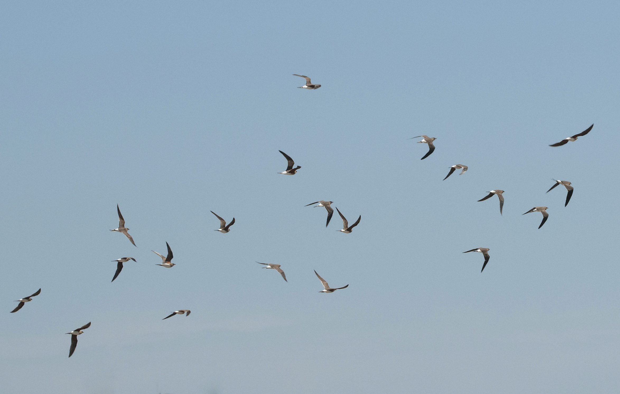 A flying flock of Collared Pratincole (Glareola pratincola ). Dune Harbiş in Karataş - Adana, Turkey.